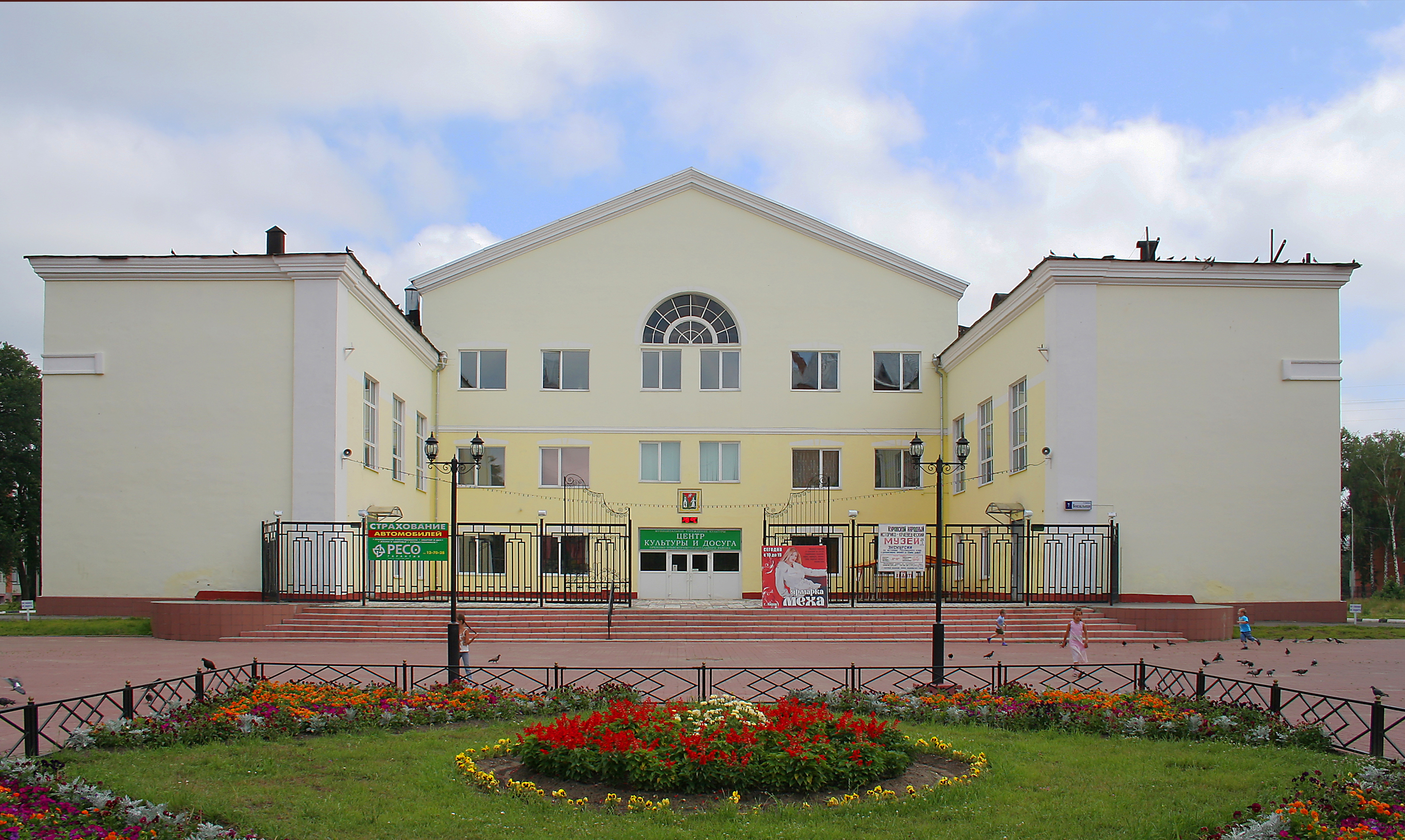 The «Center for Culture and Leisure» in Kurovskoye, Moscow Oblast, Russia.